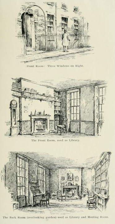 One exterior and two interiors views at 2 Verulam Buildings, Gray's Inn, London. These were the first premises, 1805 to 1810, of the Medical and Chirurgical Society of London. From Norman Moore and Stephen Paget, The Royal Medical and Chirurgical Society of London. Centenary, 1805-1905 (1905).